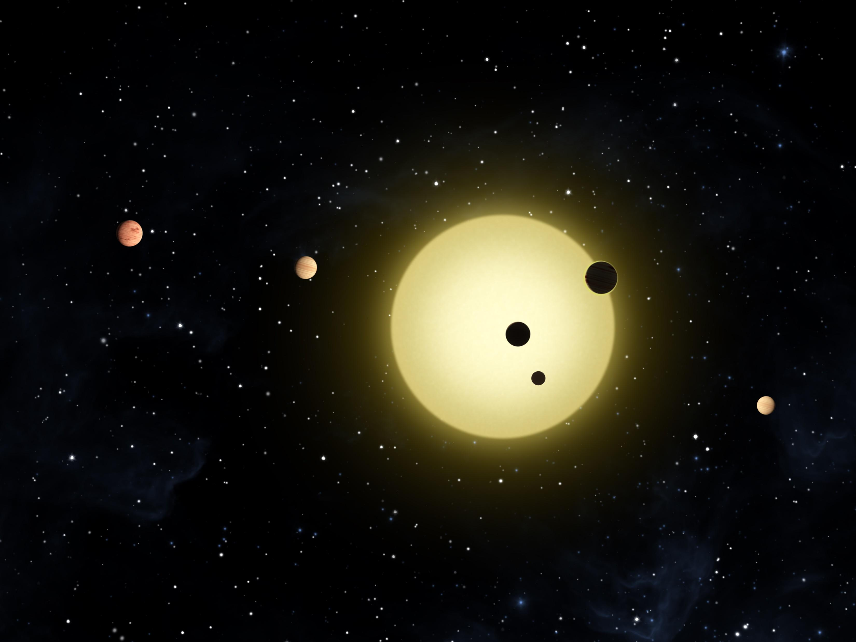 The Kepler-11 planetary system, with at least 6 planets in short orbits..